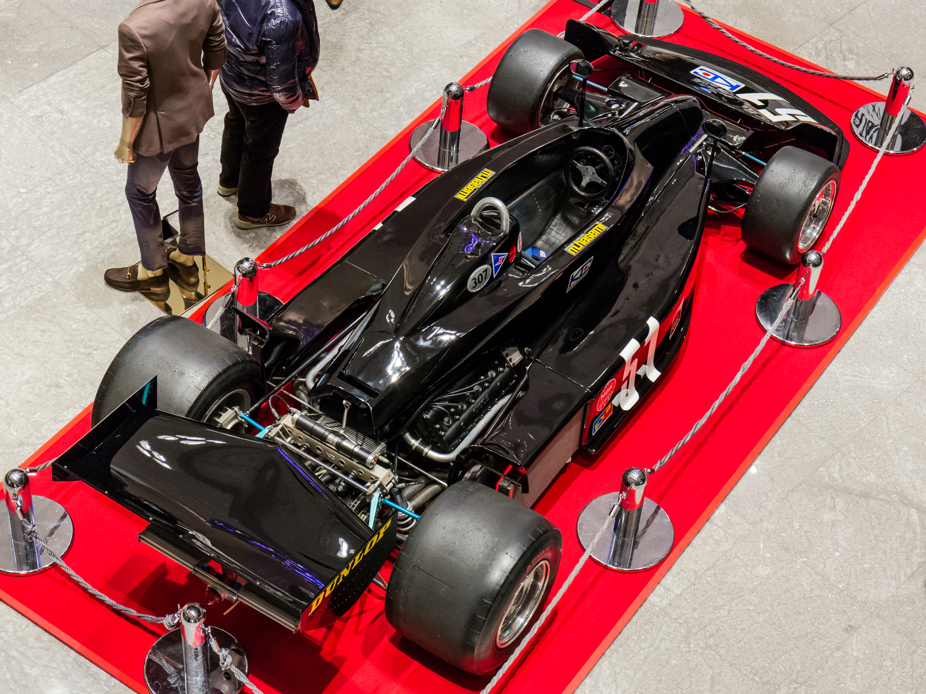 Kojima KE007